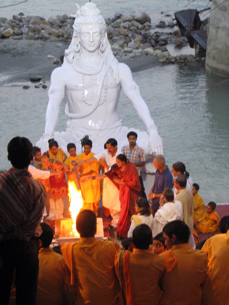 A havan ceremony on the banks of Ganges, Muni ki Reti, Rishikesh.